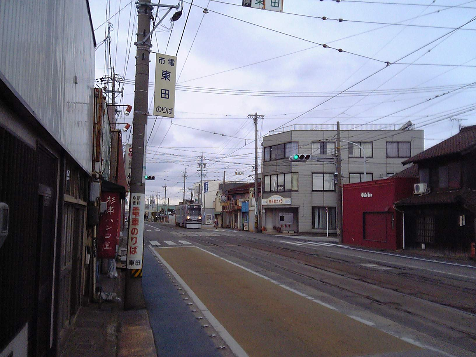 Azumada Tram Stop on the Toyohashi Rail Road City Line